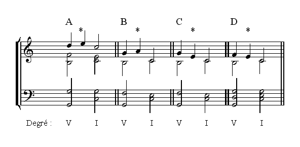 Escape tone.